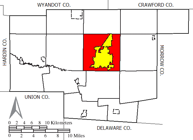 Made by the US Census and modified by myself to highlight the township